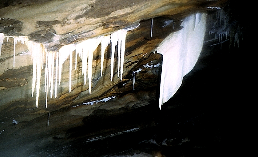 Vikgrotta